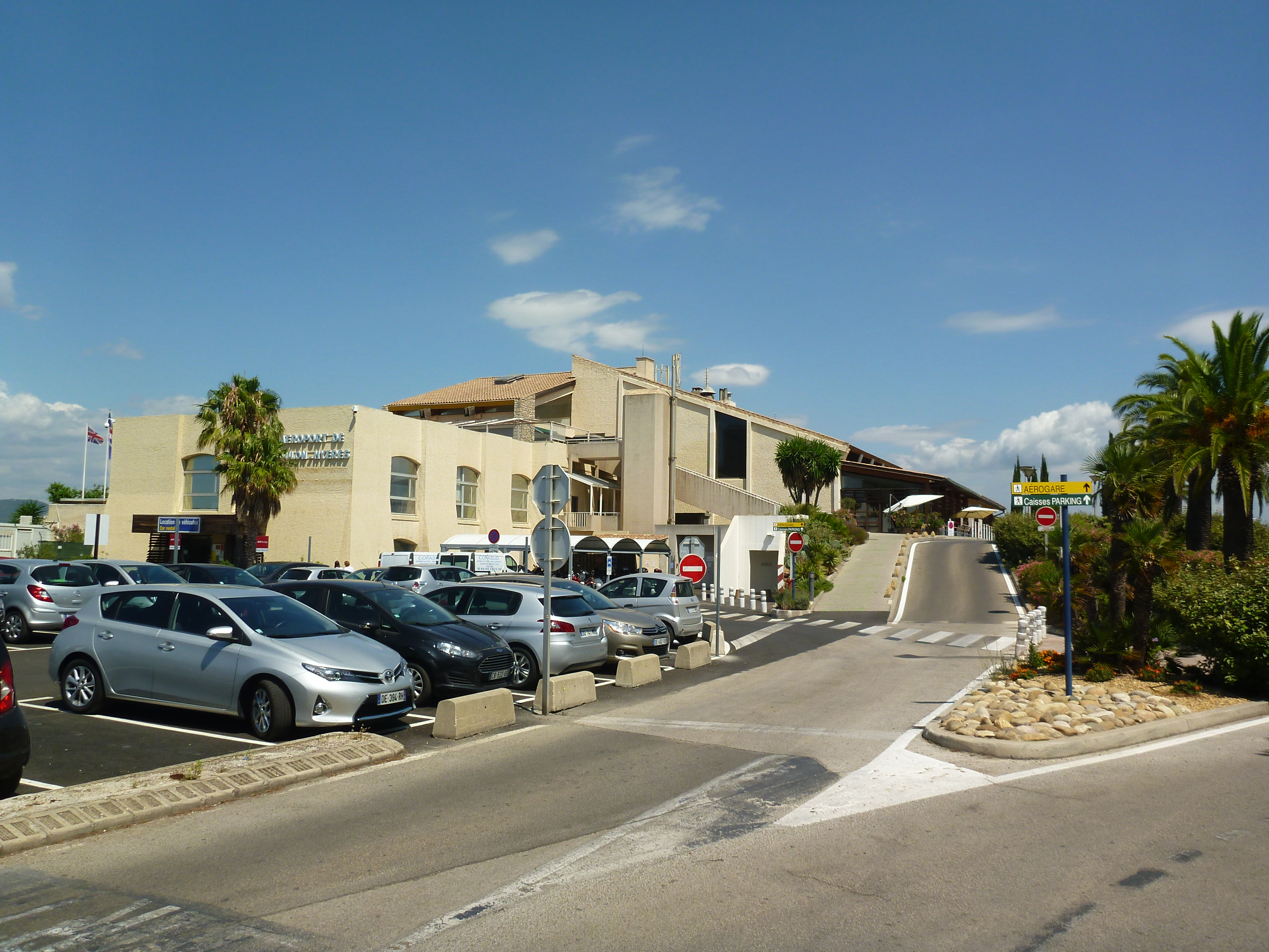 Main building of the aéroport de Toulon-Hyères